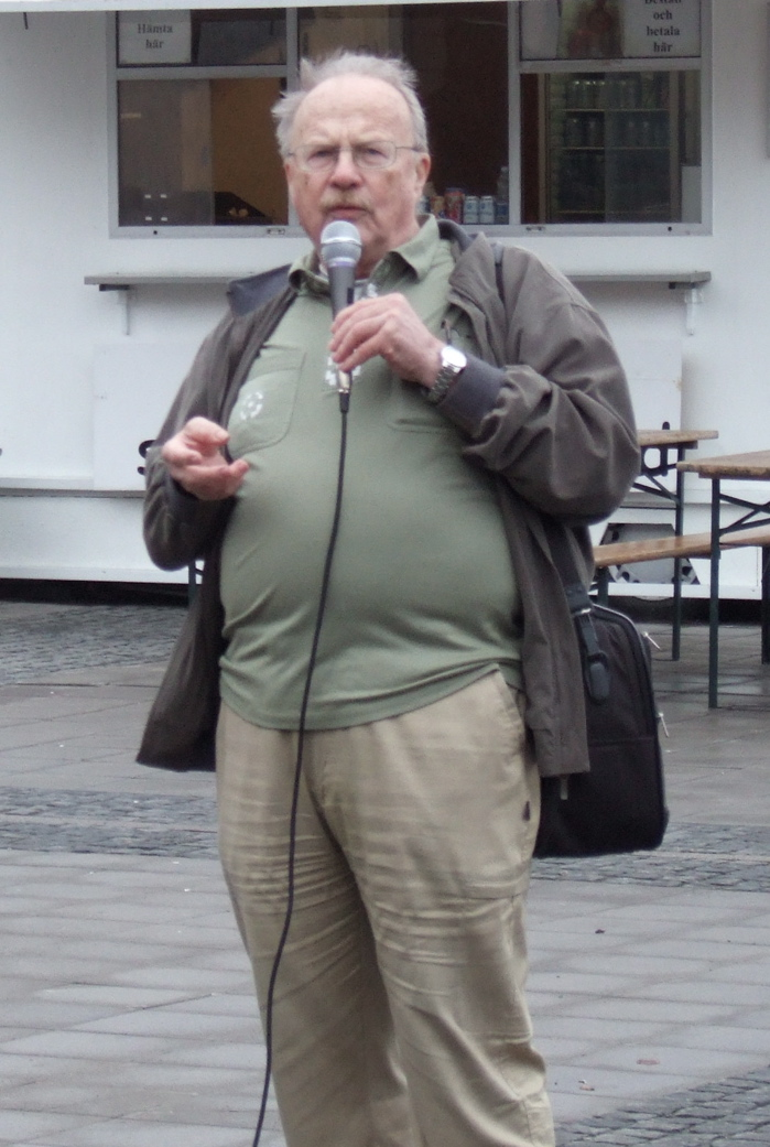 The swedish author Jan Myrdal on a public political meeting against Swedish engagement in the war in Afghanistan. The meeting was on Södermalmstorg in Stockholm, Sweden.